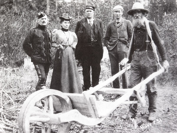 Faith Fenton on Assignment in the Yukon; l to r, Captain Gardiner, RCD; Faith Fenton; Captain Bill Robinson (Stikine Chief); UID; Klondiker (after Brereton Greenhous, "Guarding the Goldfields")